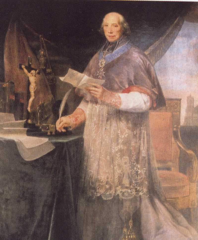 Portrait of Bishop Alexandre Angélique de Talleyrand-Périgord (1736-1820). Painted in 1822 by Joseph Chabod as a commissioned work. The picture was ordered by Talleyrands nephew Charles Maurice Talleyrand.